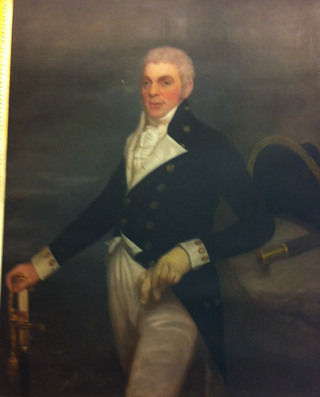 John Houlton Marshall, Province House, Nova Scotia, Canada